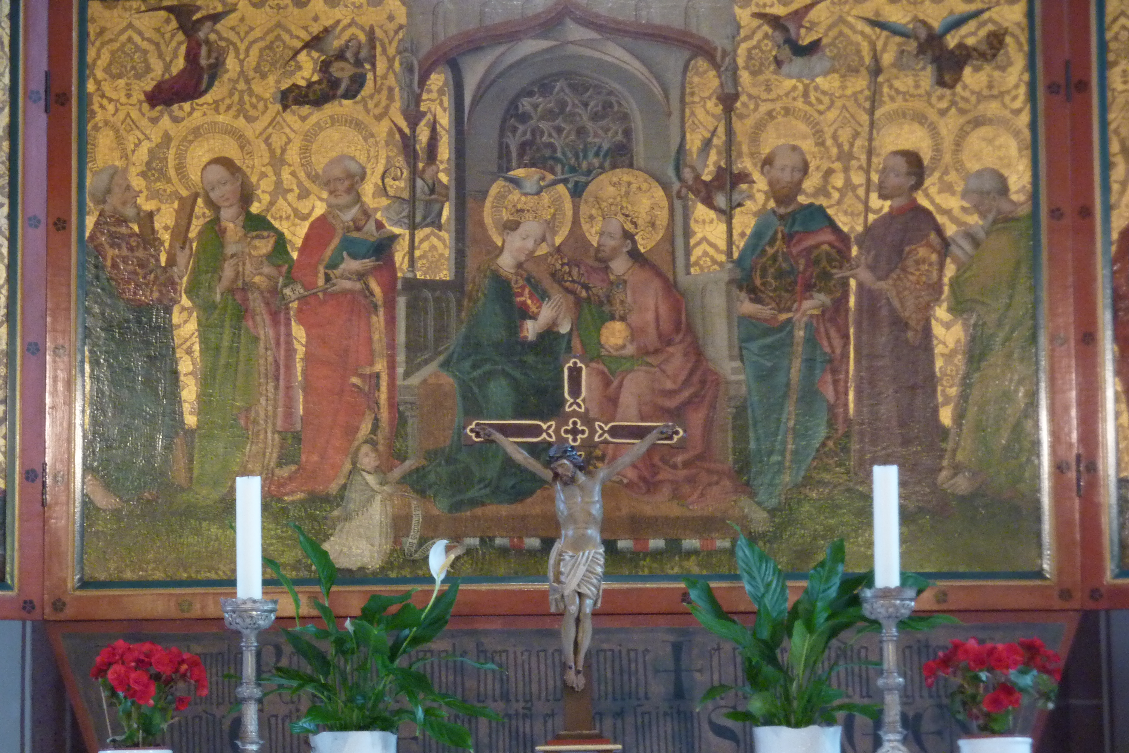 katholische Pfarrkirche Zur Schmerzhaften Muttergottes in Aufenau, einem Ortsteil von Wächtersbach im Main-Kinzig-Kreis (Hessen), Ausschnitt des Altarbildes